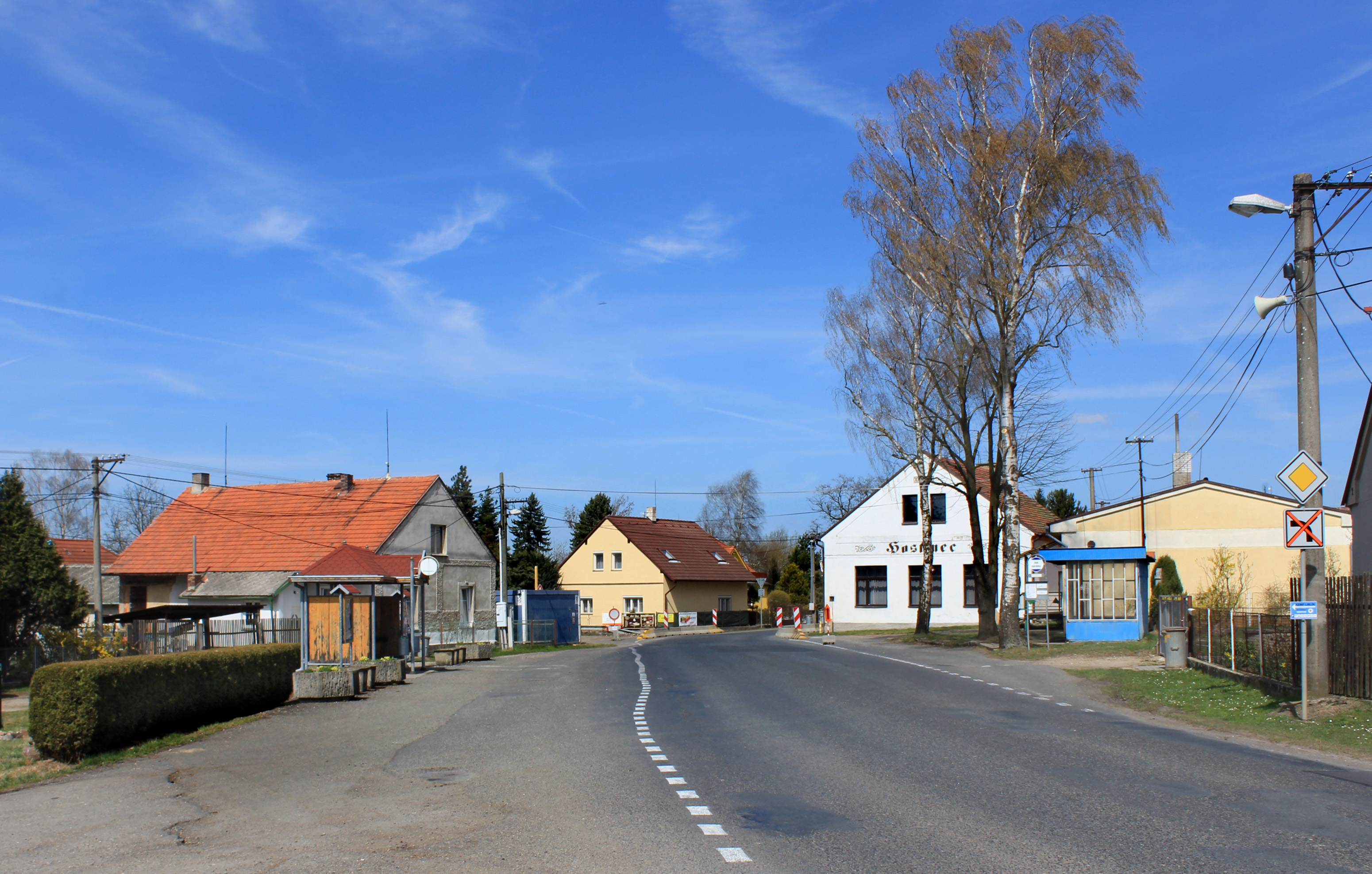 Road No. 232 in Bezděkov village, Czech Republic.